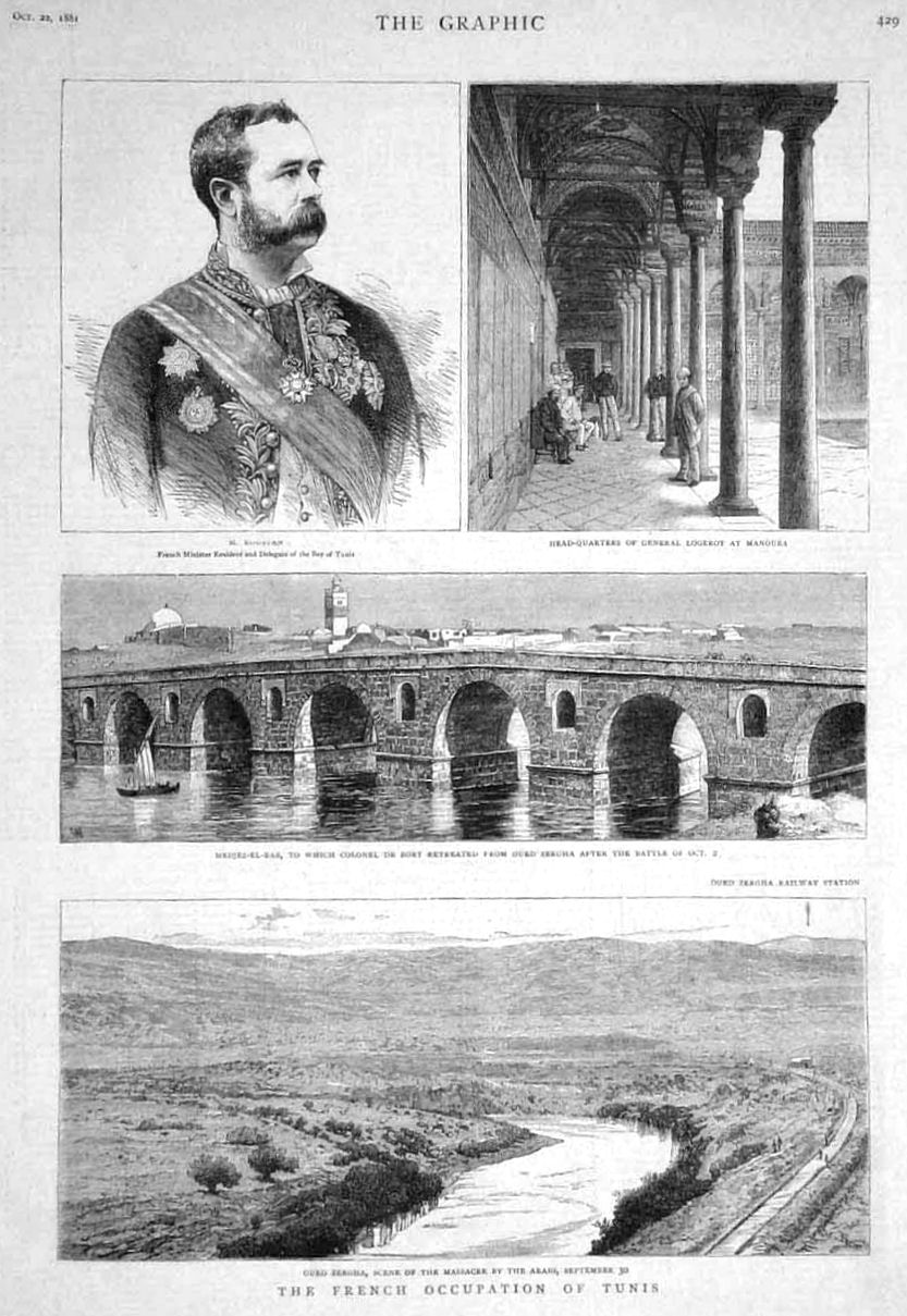 French_occupation_of_Tunis_1881 The_Graphic